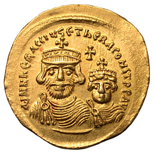 Heraclius and Heraclius Constantine, Roman Emperors